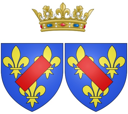 Coat of arms of Louise Bénédicte de Bourbon as Duchess of Maine